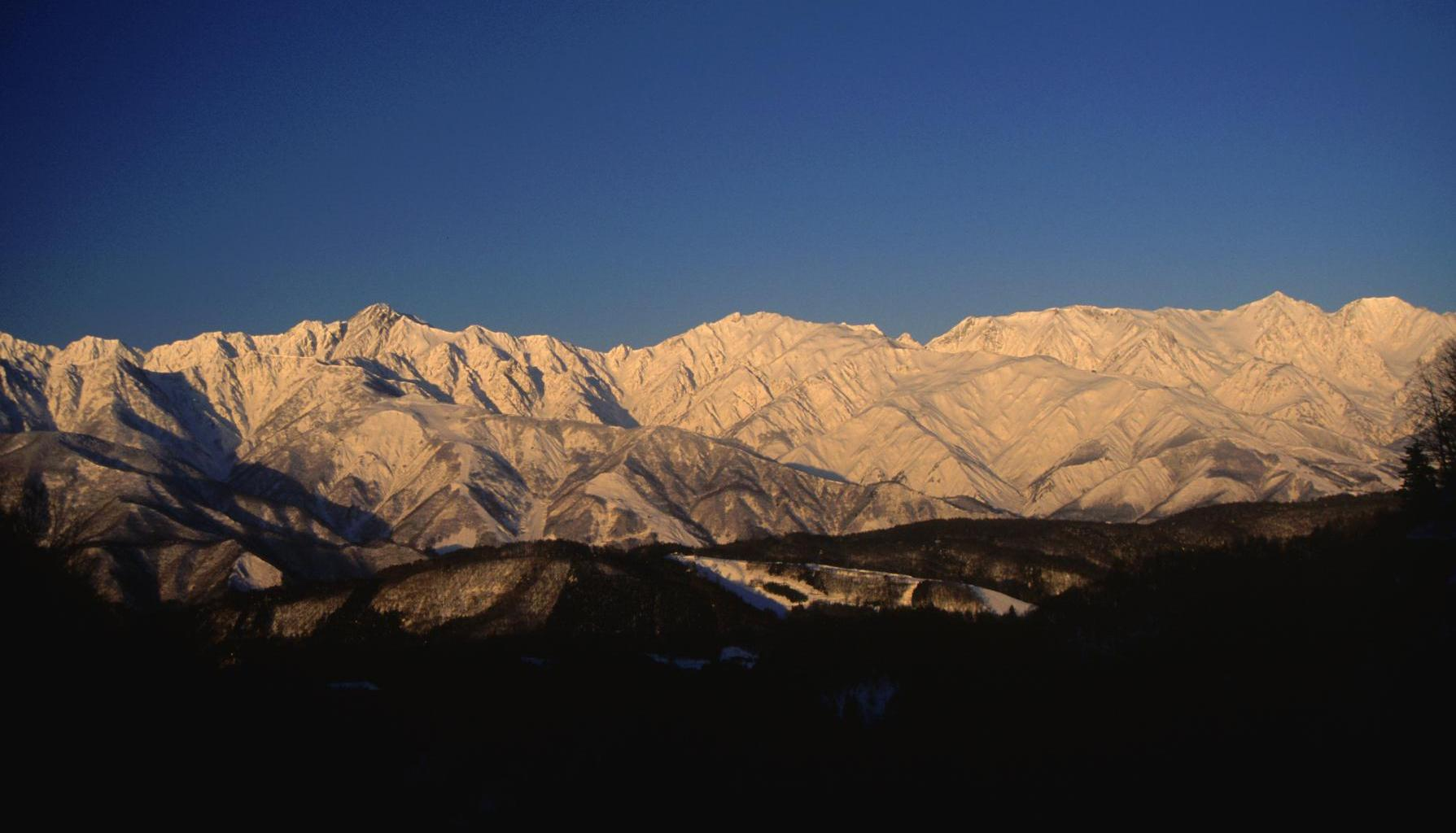 Ushirotateyama Mountains (Mount Kashimayari, Mount Goryu, Mount Shiro, Mount Daikoku, Mount Karamatsu, Mount Kaedazu, Mount Tengu, Mount Yari and Mount Shakushi) seen from Kamishiro, Hakuba, Nagano, Nagano Prefecture, Japan.